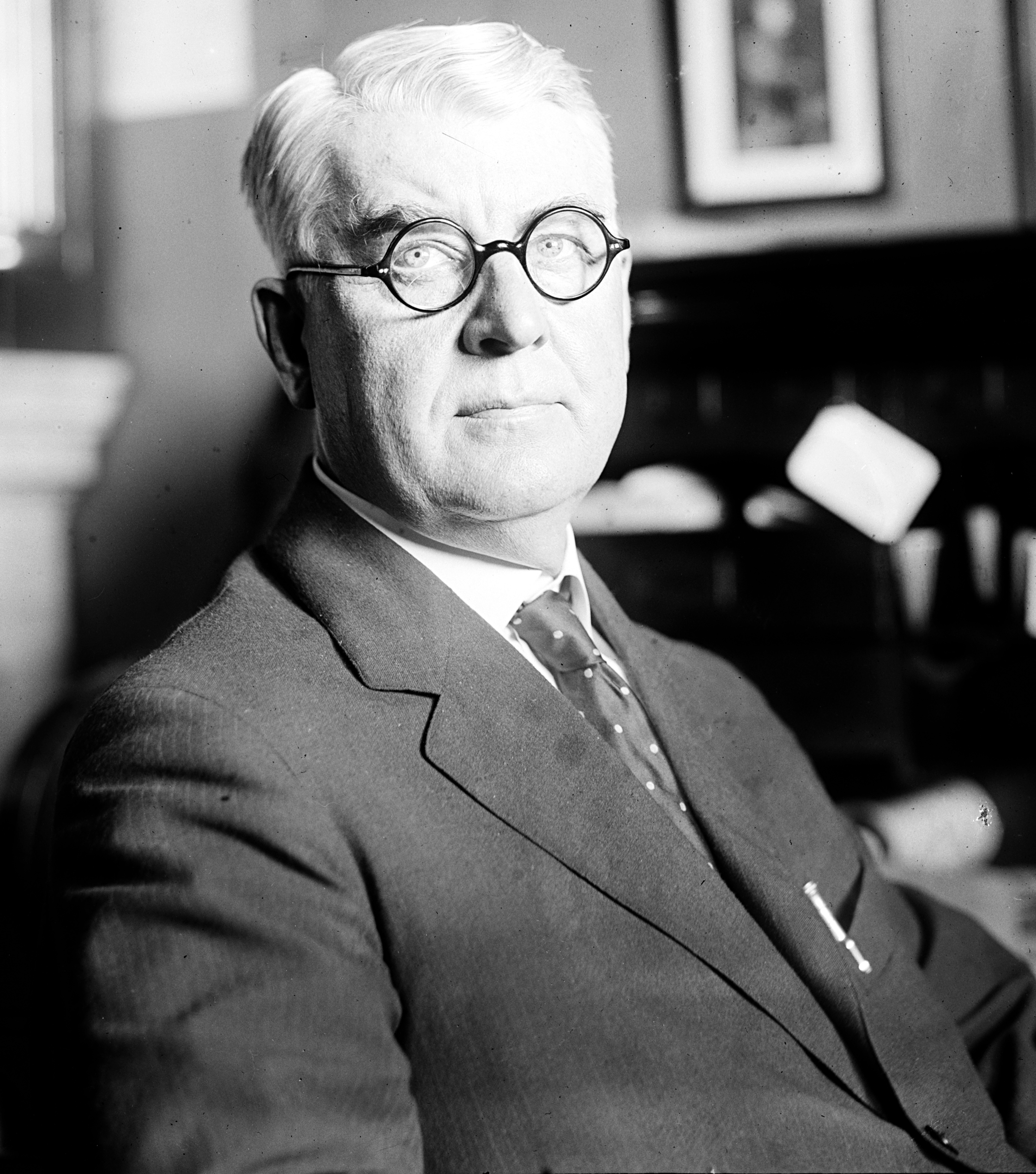 Homer P. Snyder, US Representative from New York